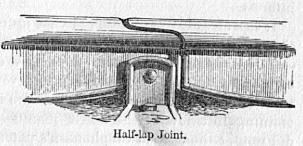 Half-lap jointed rail patented in 1816 by George Stephenson and Mr. Losh, Iron-founder of Newcastle.